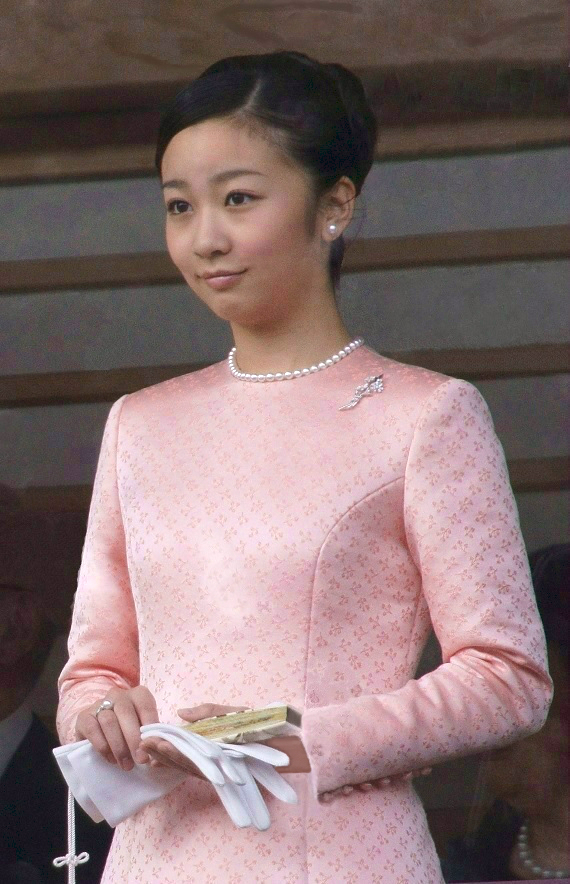 Princess Kako during the New Year Greeting 2015 at the Tokyo Imperial Palace.